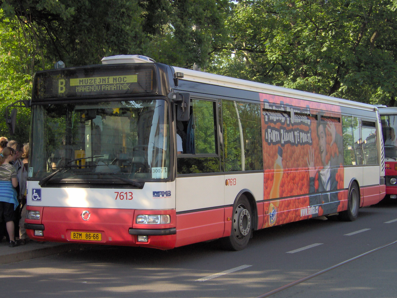 Irisbus Citybus 12M bus in Brno, Czech Republic.